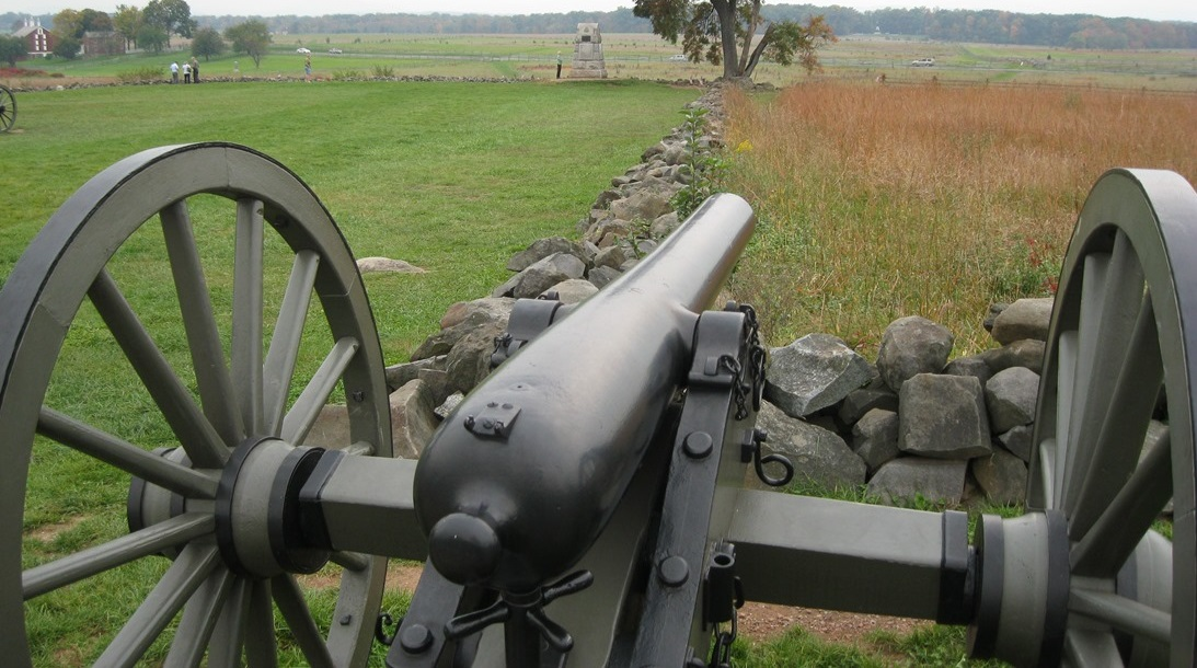 Photo shows a 3-inch Ordnance rifle along Hancock Avenue at Gettysburg National Military Park near the Company A, 1st Rhode Island Light Artillery monument. Directly in front is "The Angle" - the target of Pickett's Charge. View is toward the west.